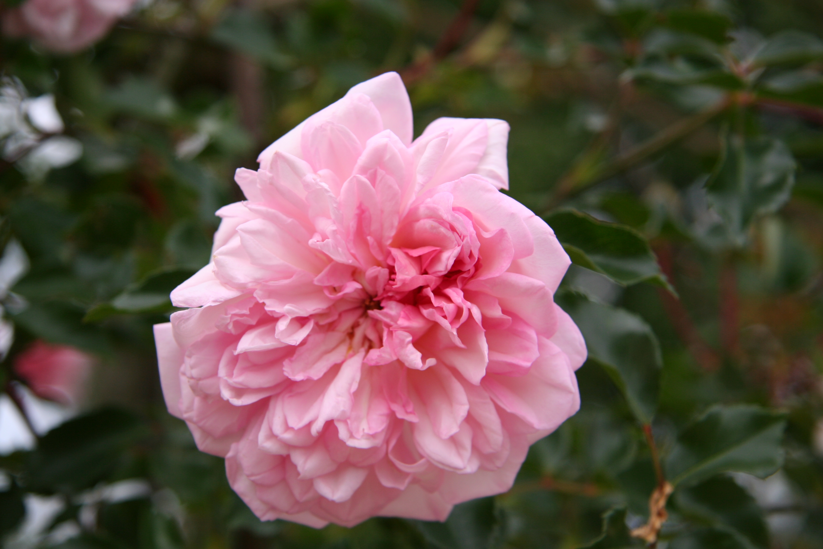 François Juranville rose - Bagatelle Rose Garden (Paris, France).